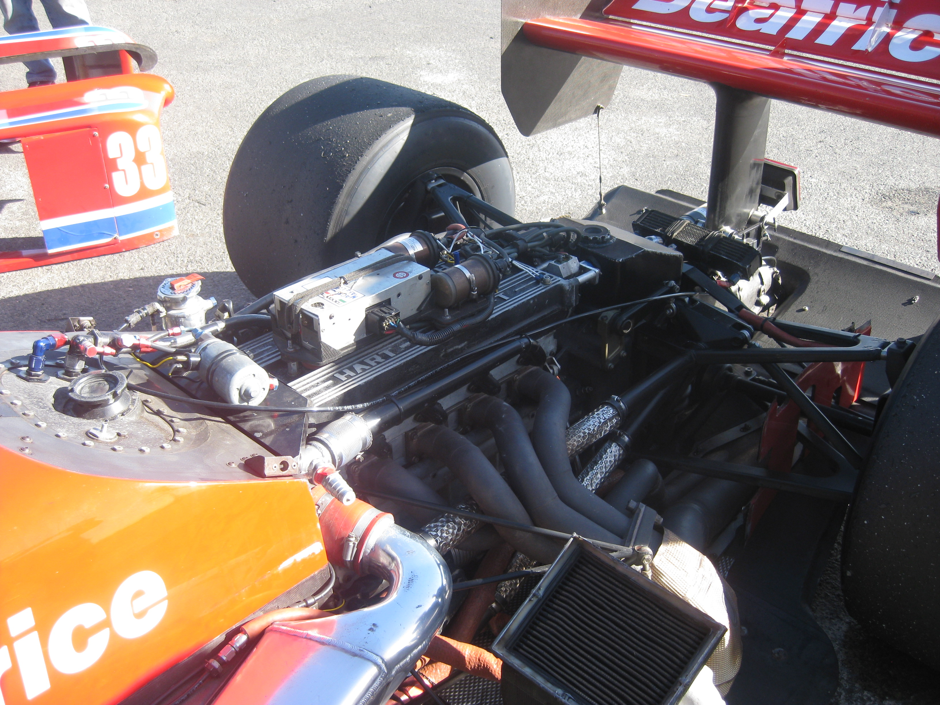 Hart 415T 1.5 litre turbocharged four cylinder Formula One engine in the Lola THL1 of Ian Ross. Pictured at Mallala Motor Sport Park on 19 April 2014.